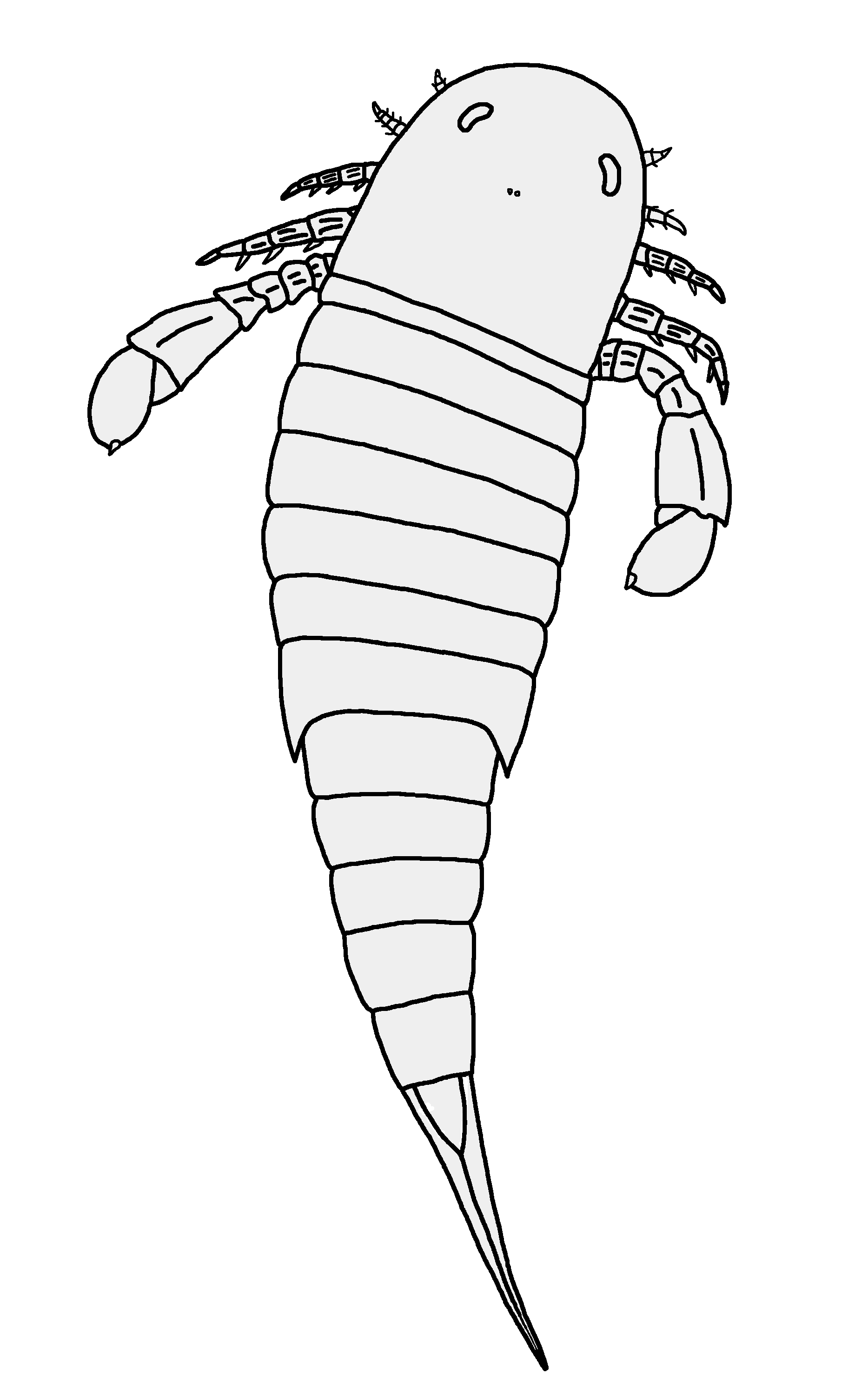 Restoration of the eurypterid species Nanahughmilleria norvegica, based on this website.